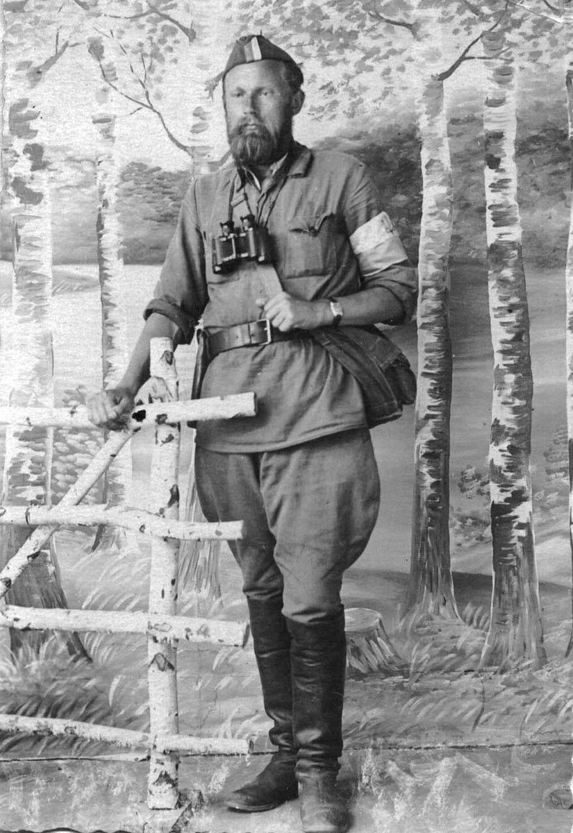 Taras Borovets – leader of Polisian Sich.